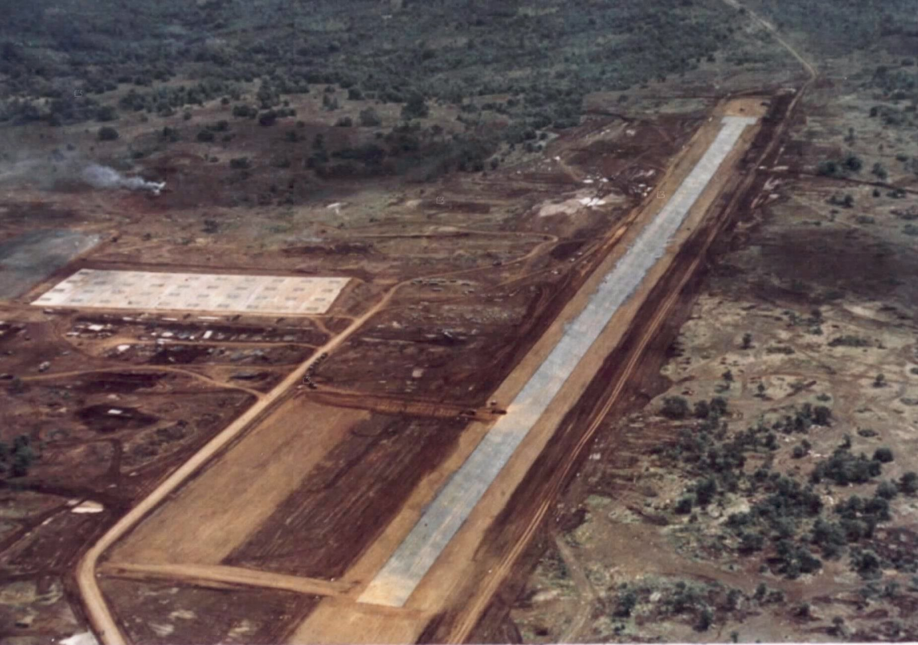 Aerial view of Landing Zone Oasis which is being used by a brigade of the 4th Infantry Division during Operation Francis Marion in western Pleiku province. Company B, 35th Engineer Battalion has upgraded the landing zone and constructed a 40 pad heliport.